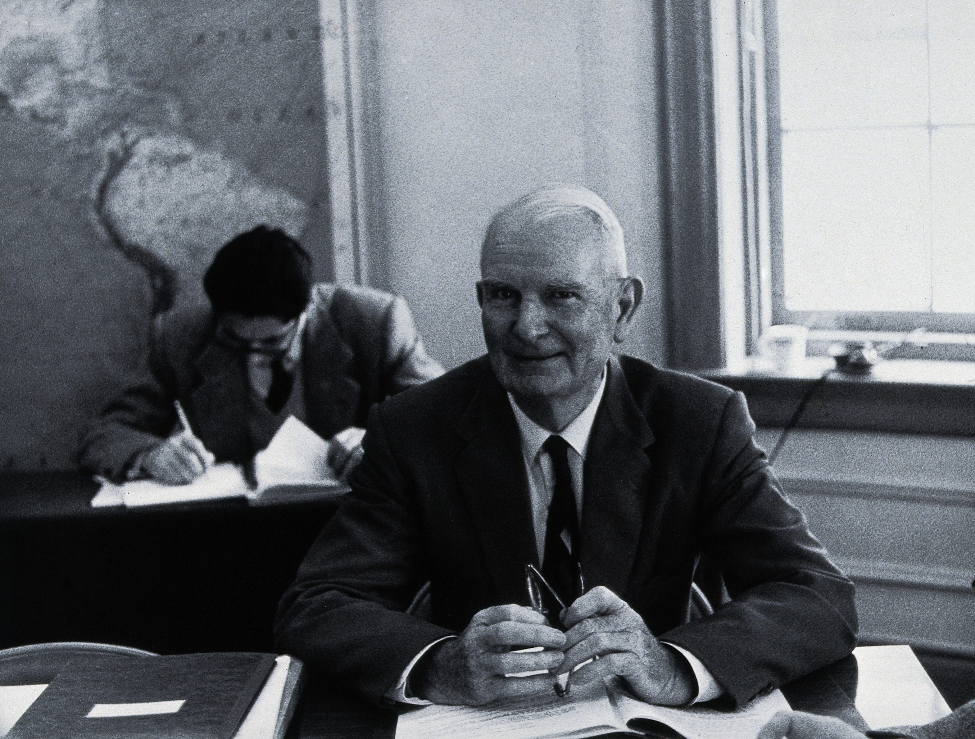 George Giglioli, author of this 1955 paper on malaria control - Medical Adviser, B.G. Sugar Producers' Associateon and Hon. Government Malariologist, British Guiana. Biography) Photograph by L.J. Bruce-Chwatt. Iconographic Collections Keywords: portrait photographs